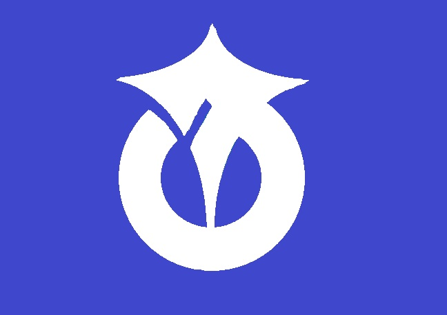 Flag of Kumiyama Kyoto